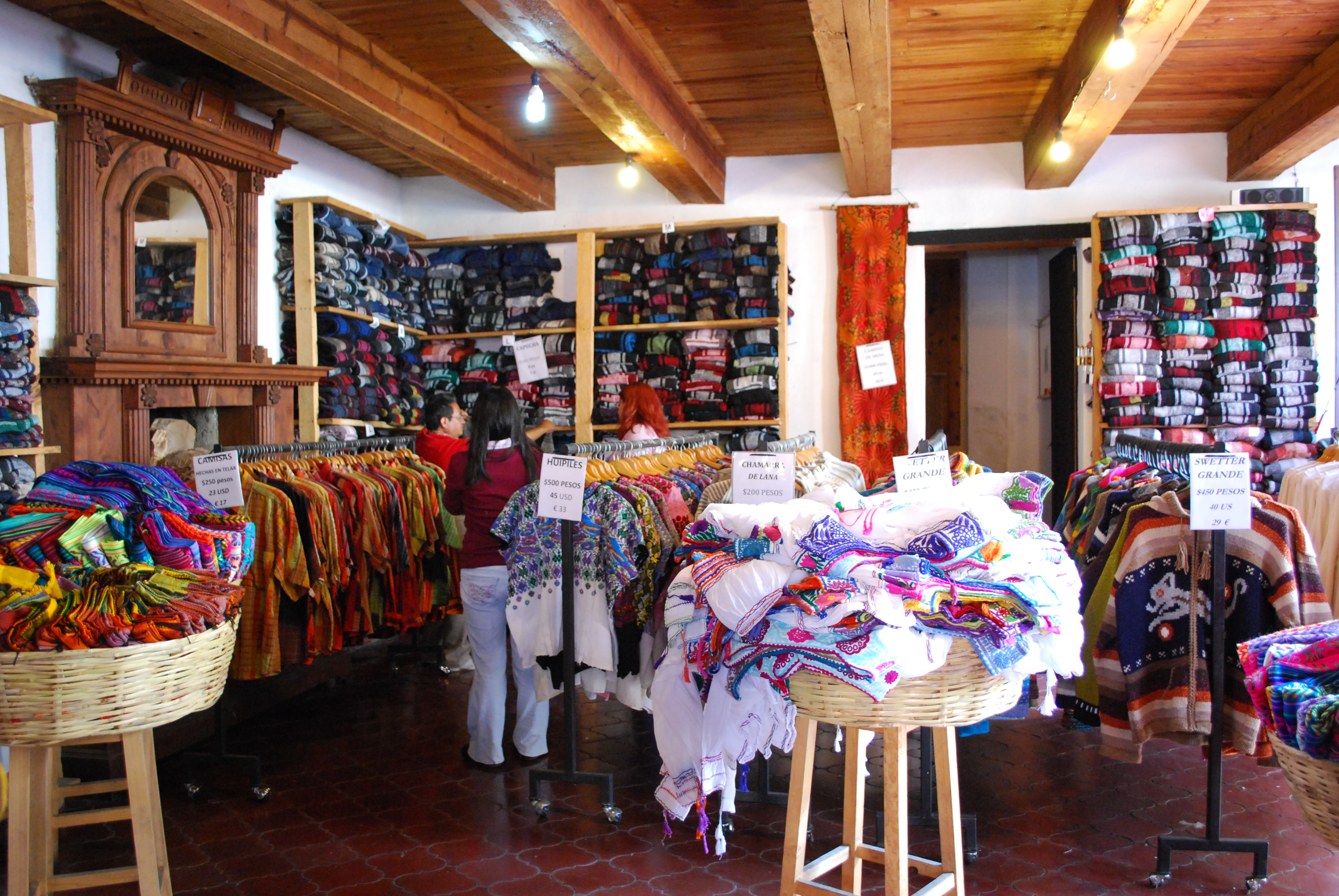 Inside the Rosalia textile and crafts store in San Cristobal de las Casas, Chiapas, Mexico